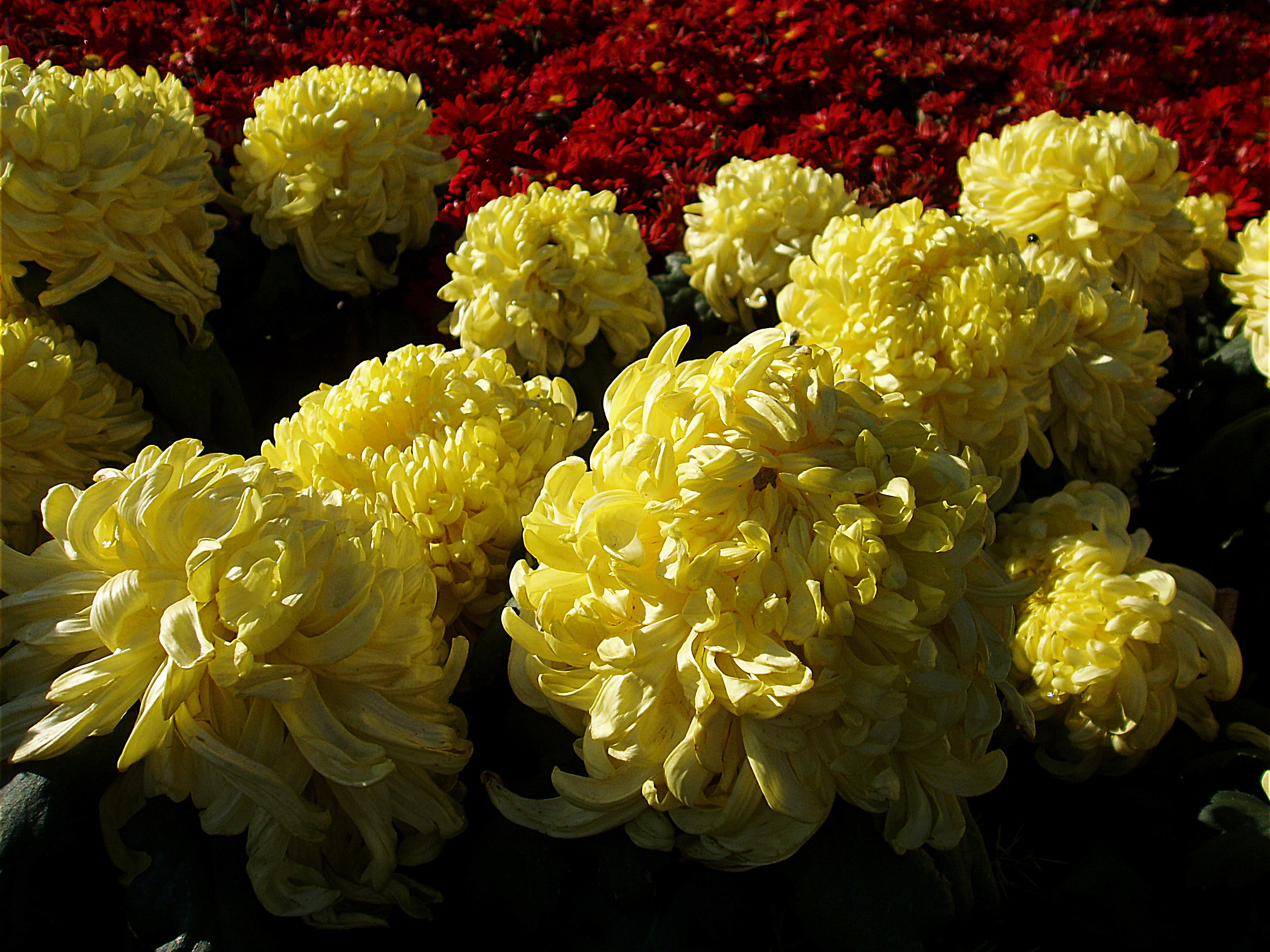 Mums flowers